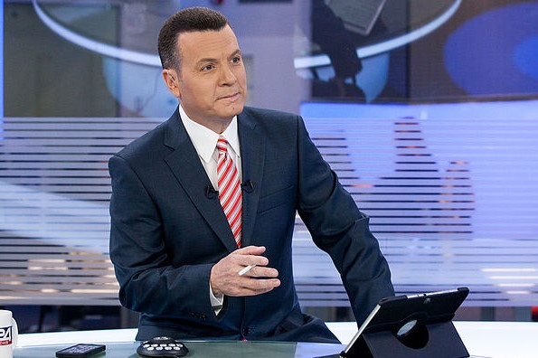 Ya'akov Eilon recording his show: "The World This Week"